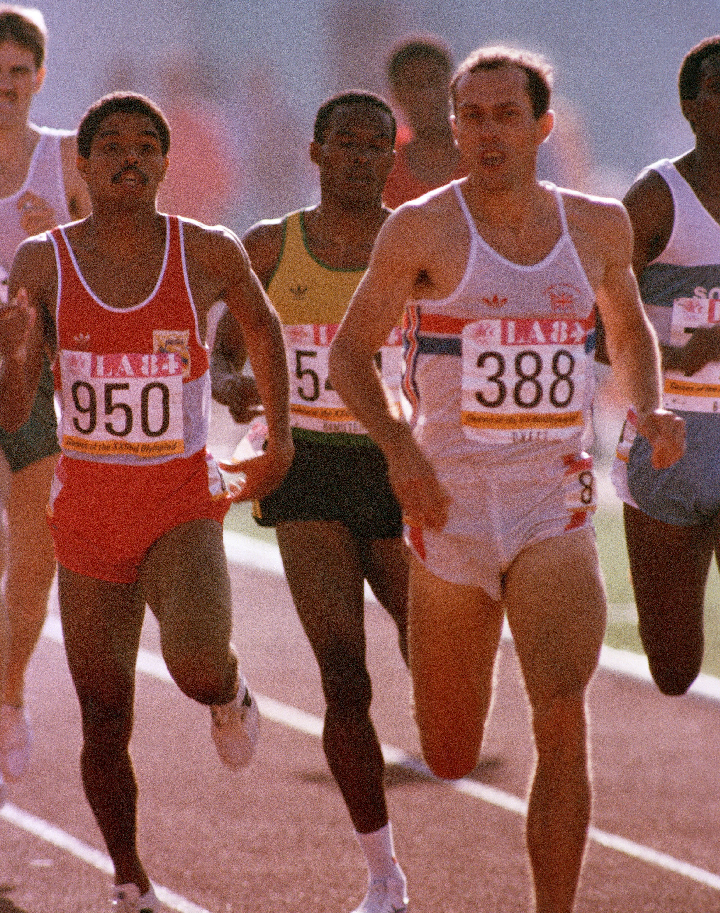 800 meter track at the 1984 Summer Olympics.